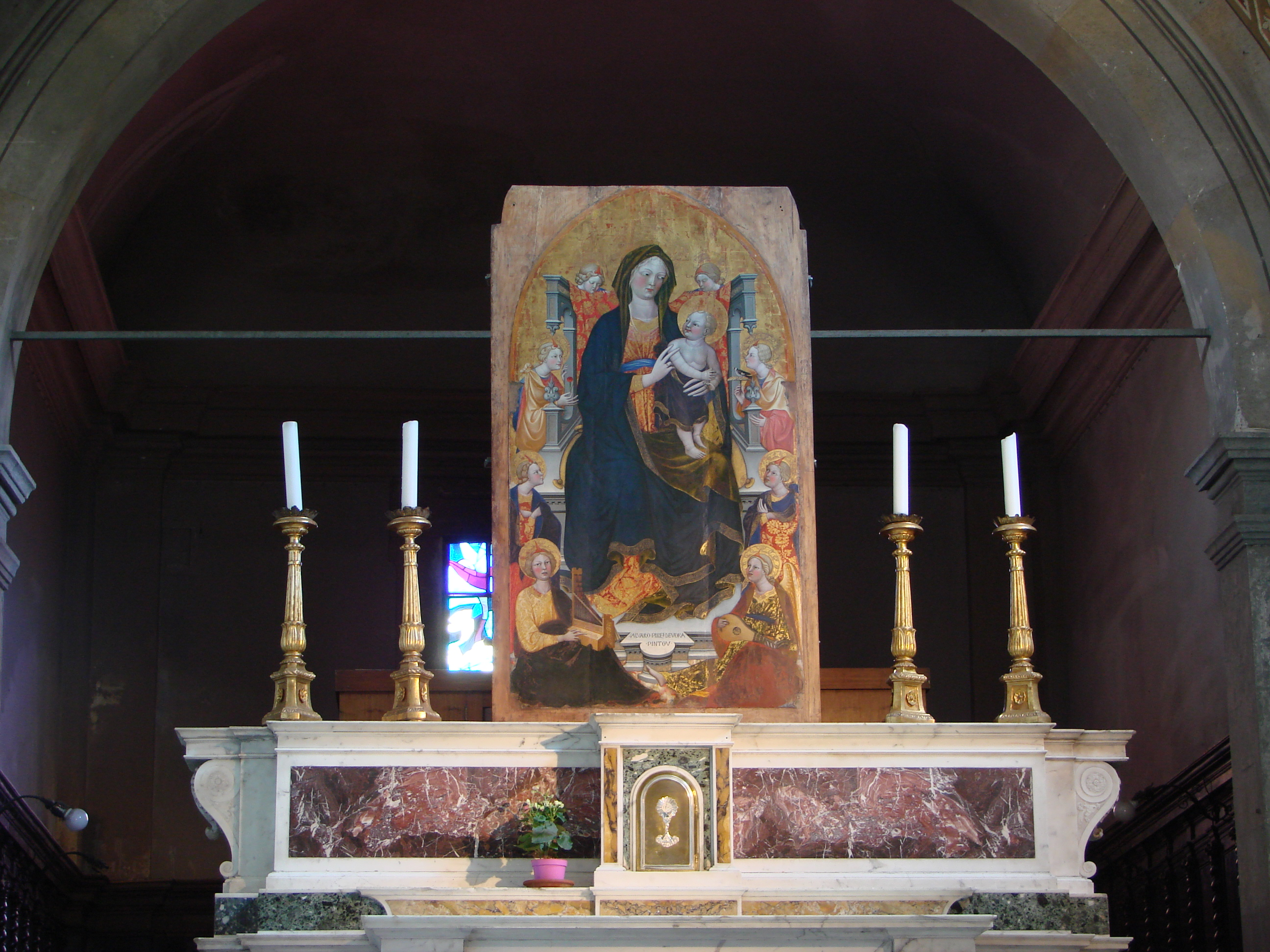 Painting on board by Alvaro Pirez d'Evora, 15th century, "Madonna col Bambino e Angeli Musicanti", inside the church of Santa Croce in Fossabanda, Pisa